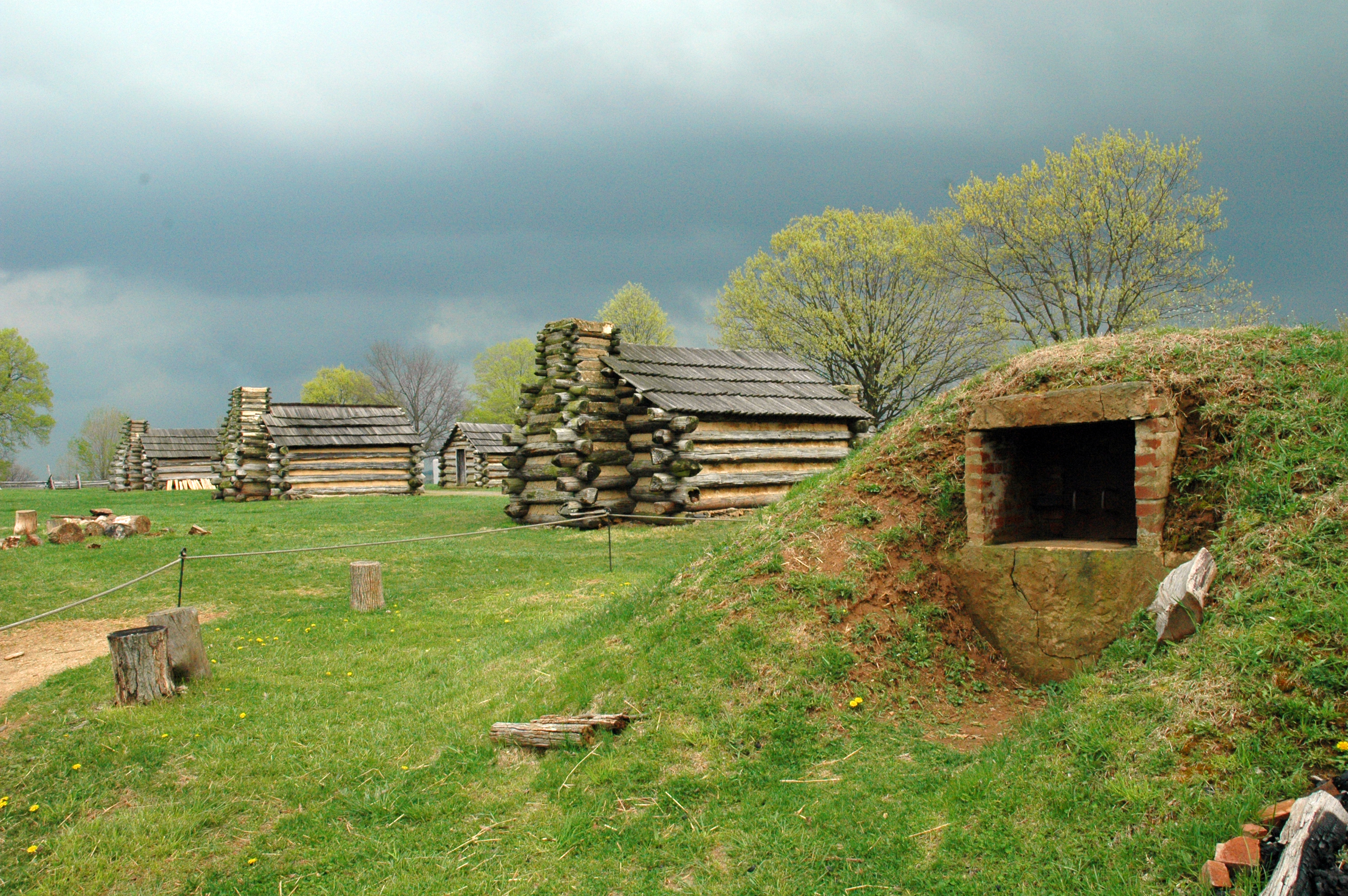 A replica of a camp at Valley Forge, consisting of an oven and several cabins, in which soldiers of George Washington's army would have stayed during the winter of 1777-1778.